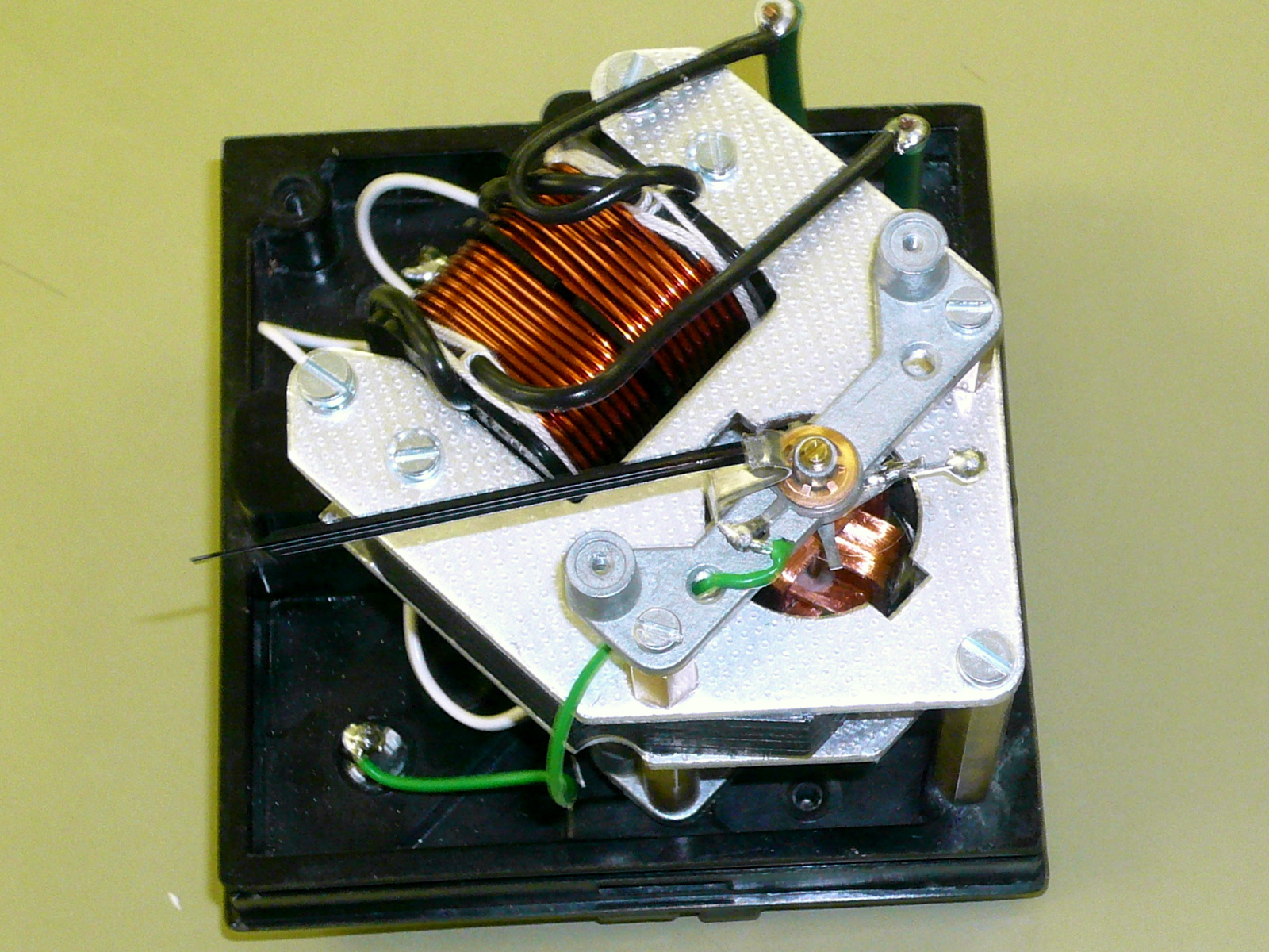 Power factor meter